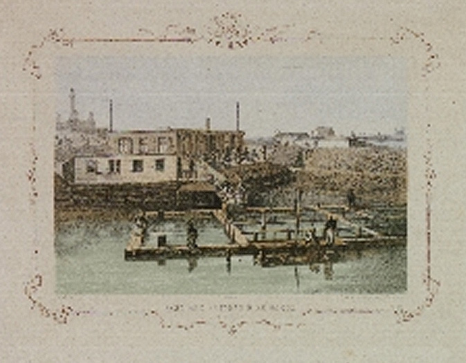 Oesterput Musin te Oostende (1854) (Oyster pond Musin, Oostende, Belgium): lithography in colour